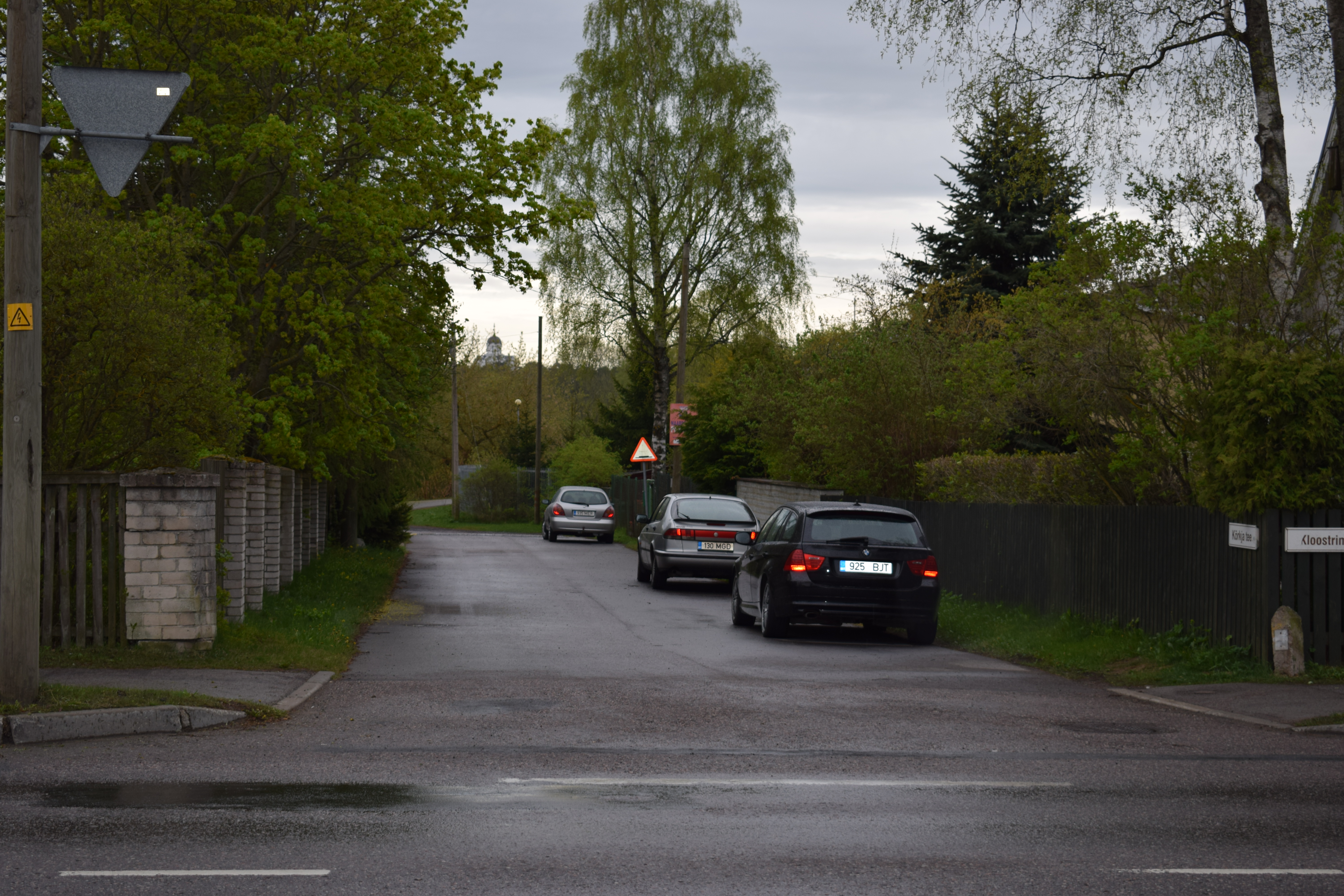 Kõrkja tee